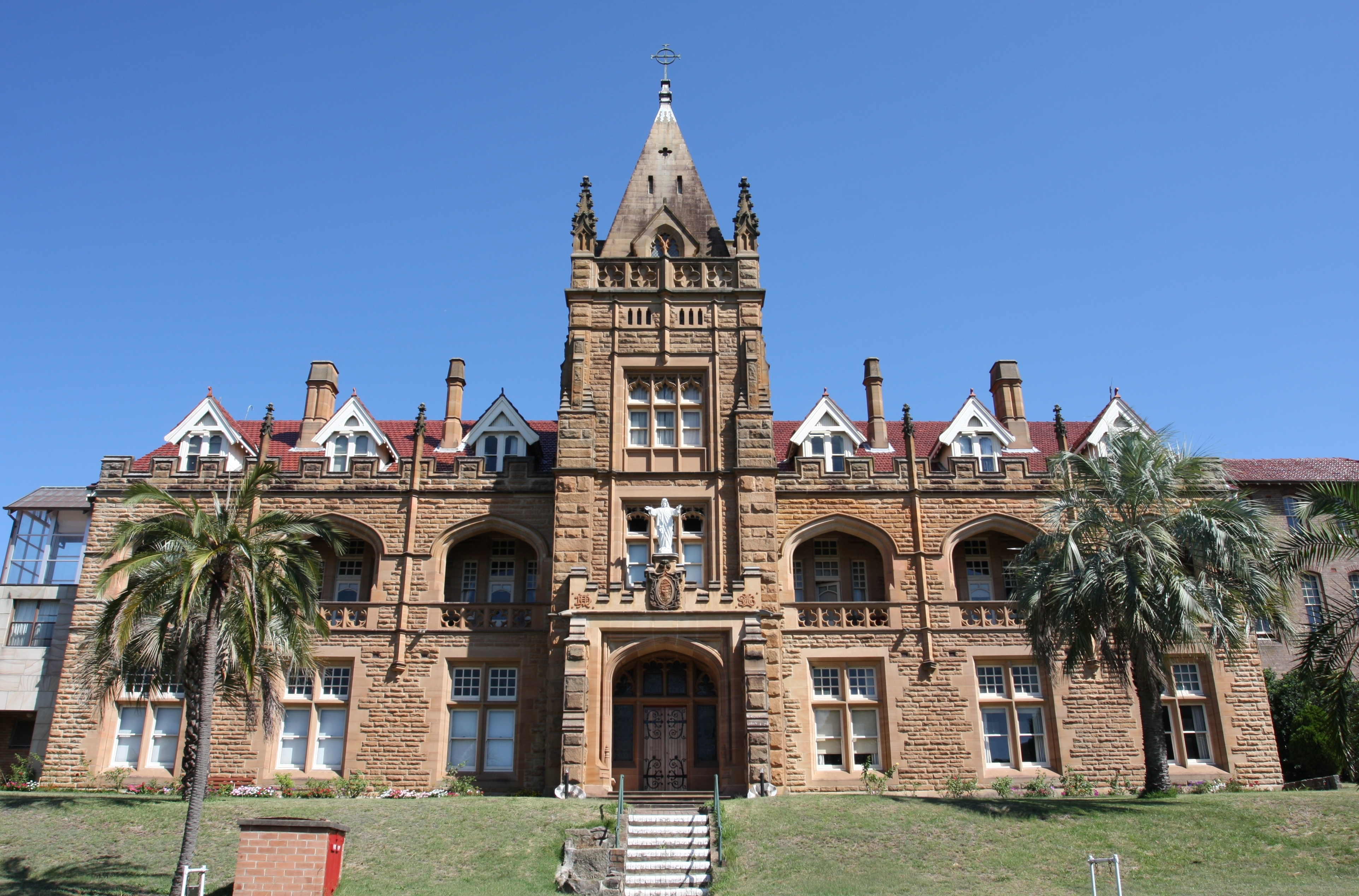 Sacred Heart Monastery, Kensignton, New South Wales